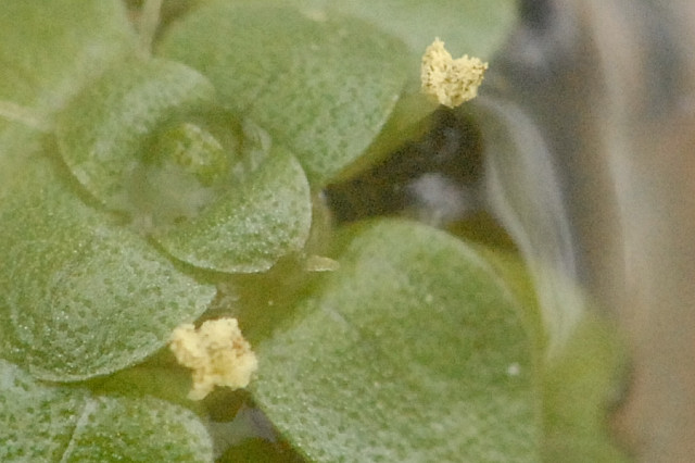 Callitriche sp. from Commanster, Belgian High Ardennes .